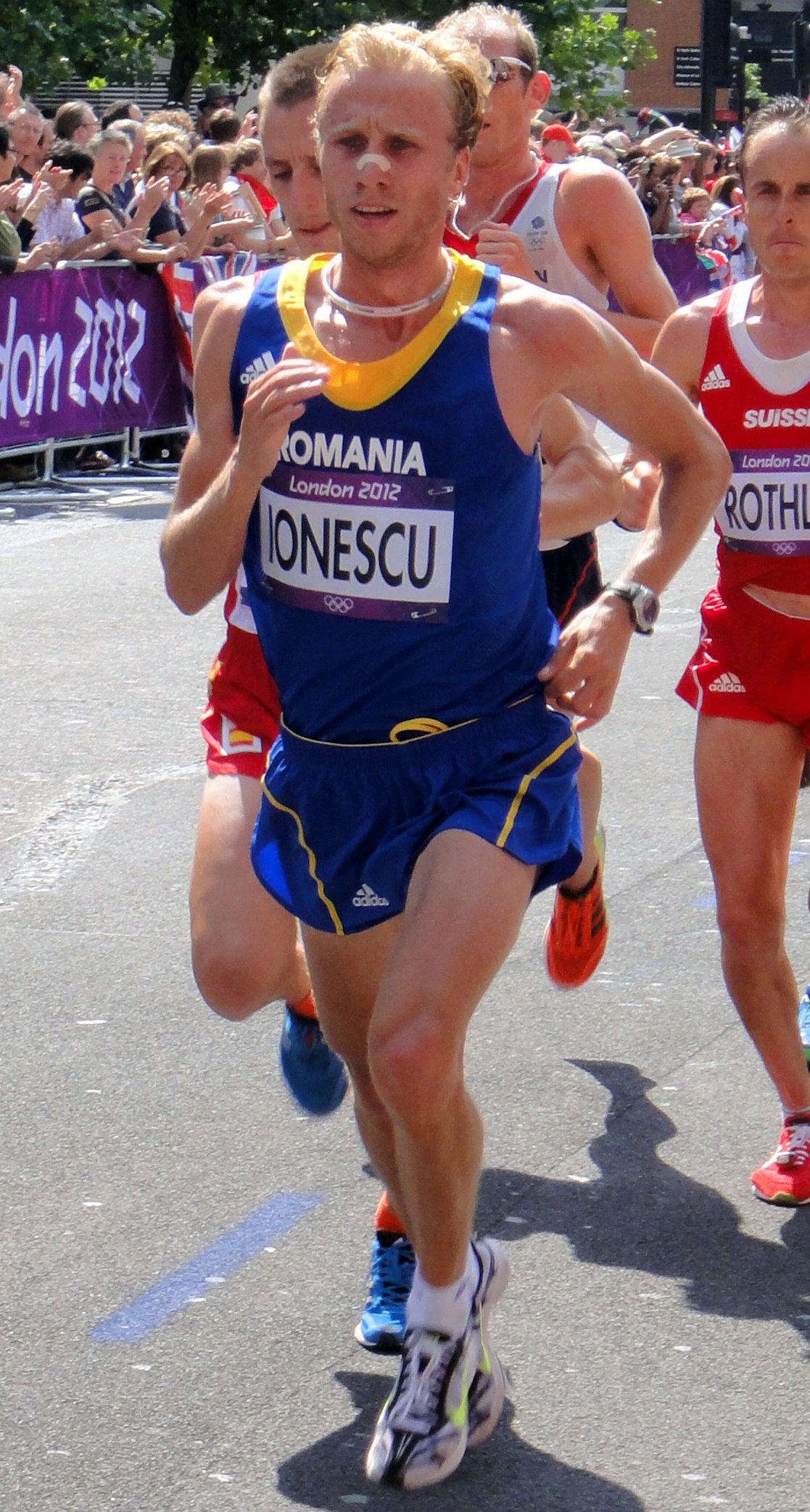 Marius Ionescu (Romania) Viktor Rothlin (Switzerland) - London 2012 Men's Marathon